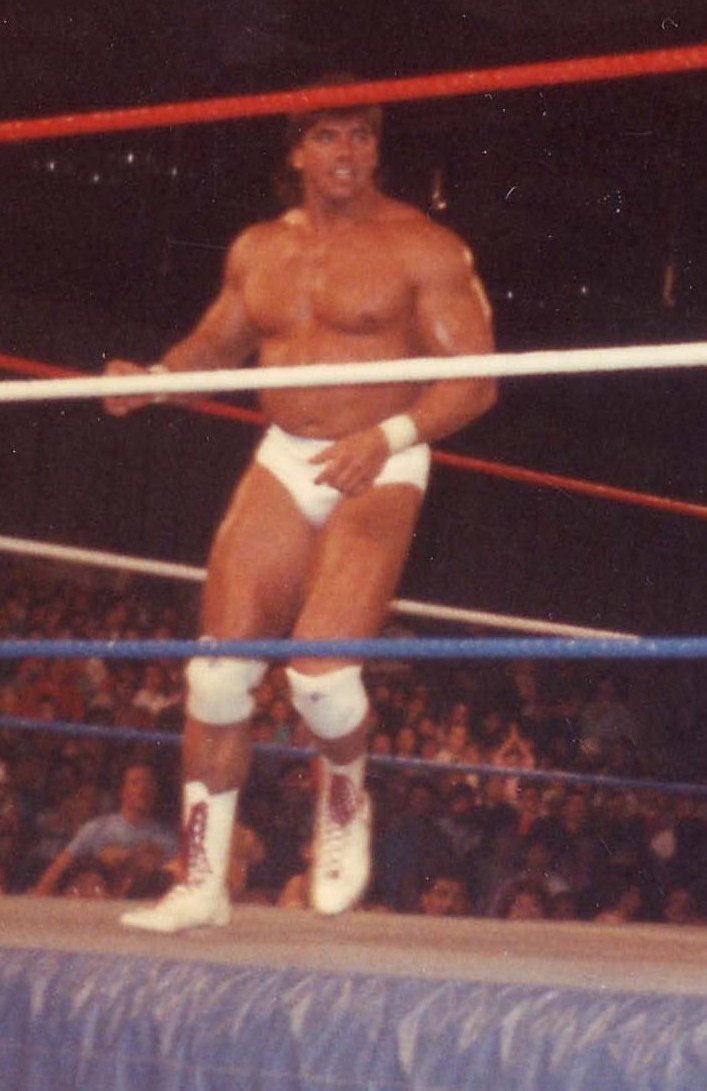 Professional wrestler Rick Martel during his WWF years.